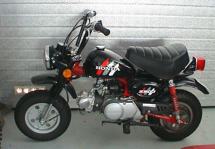 Honda Z50 Monkey Owner gave permission to do whatever you want.